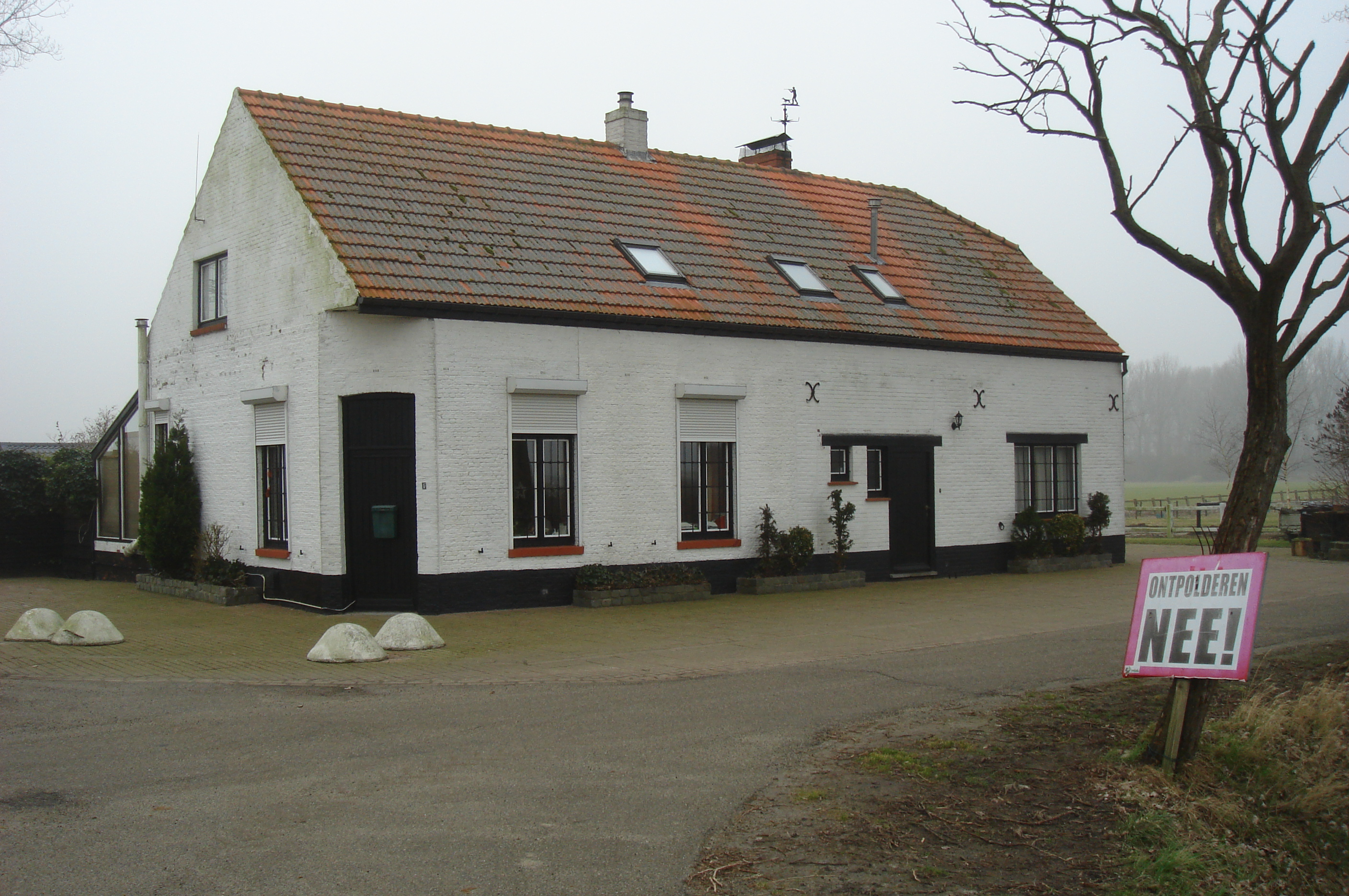 Hertogin Hedwigepolder, 27 februari 2012. De enige op dat moment nog bewoonde woning, hoek Engelbertstraat en Hedwigestraat. Foto: Daniel van der Ree